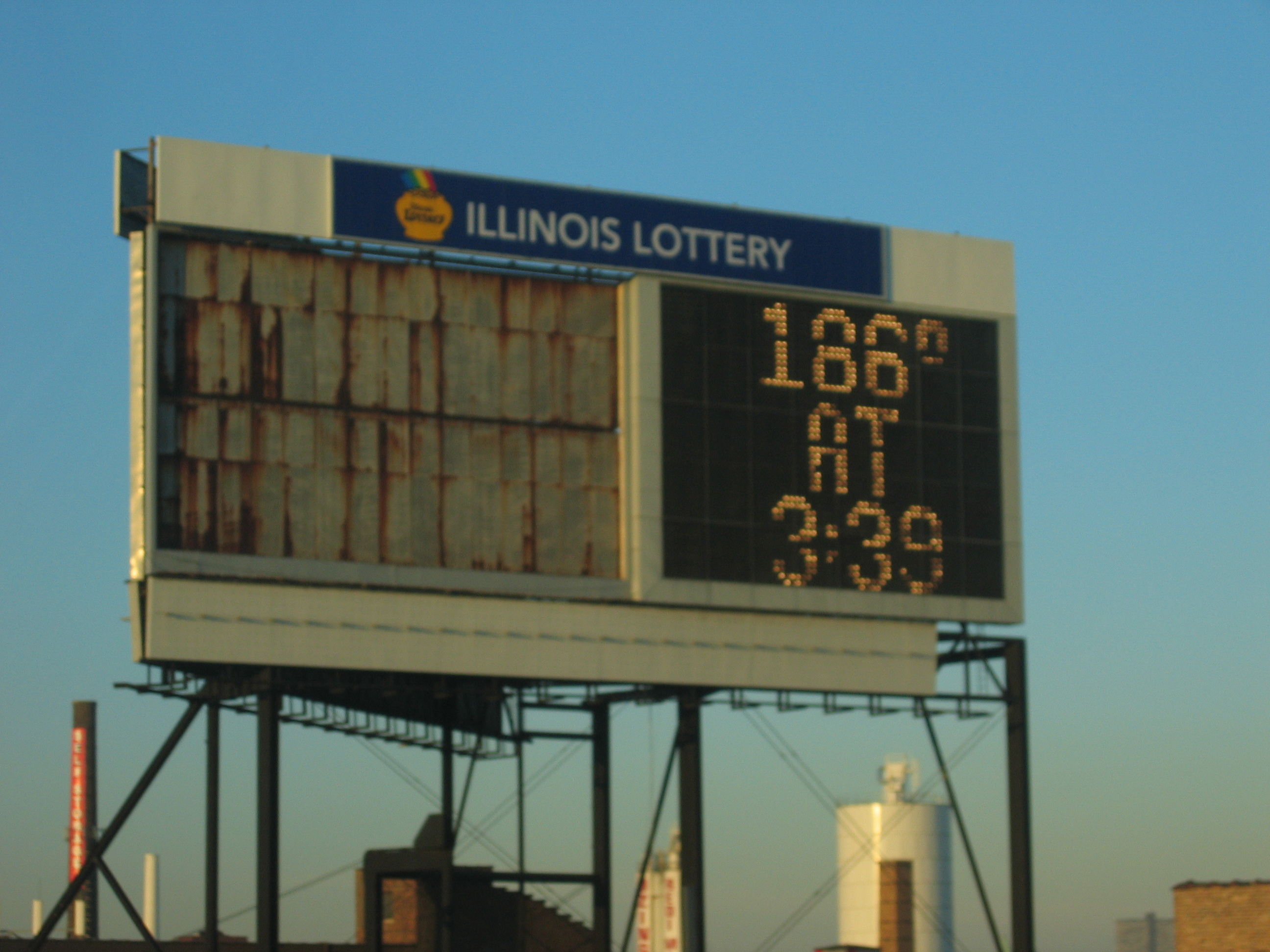 The Illinois Lottery has a billboard near downtown Chicago but on this occasion, the temperature was signed incorrectly as 186 degrees Fahrenheit (86 Celsius).